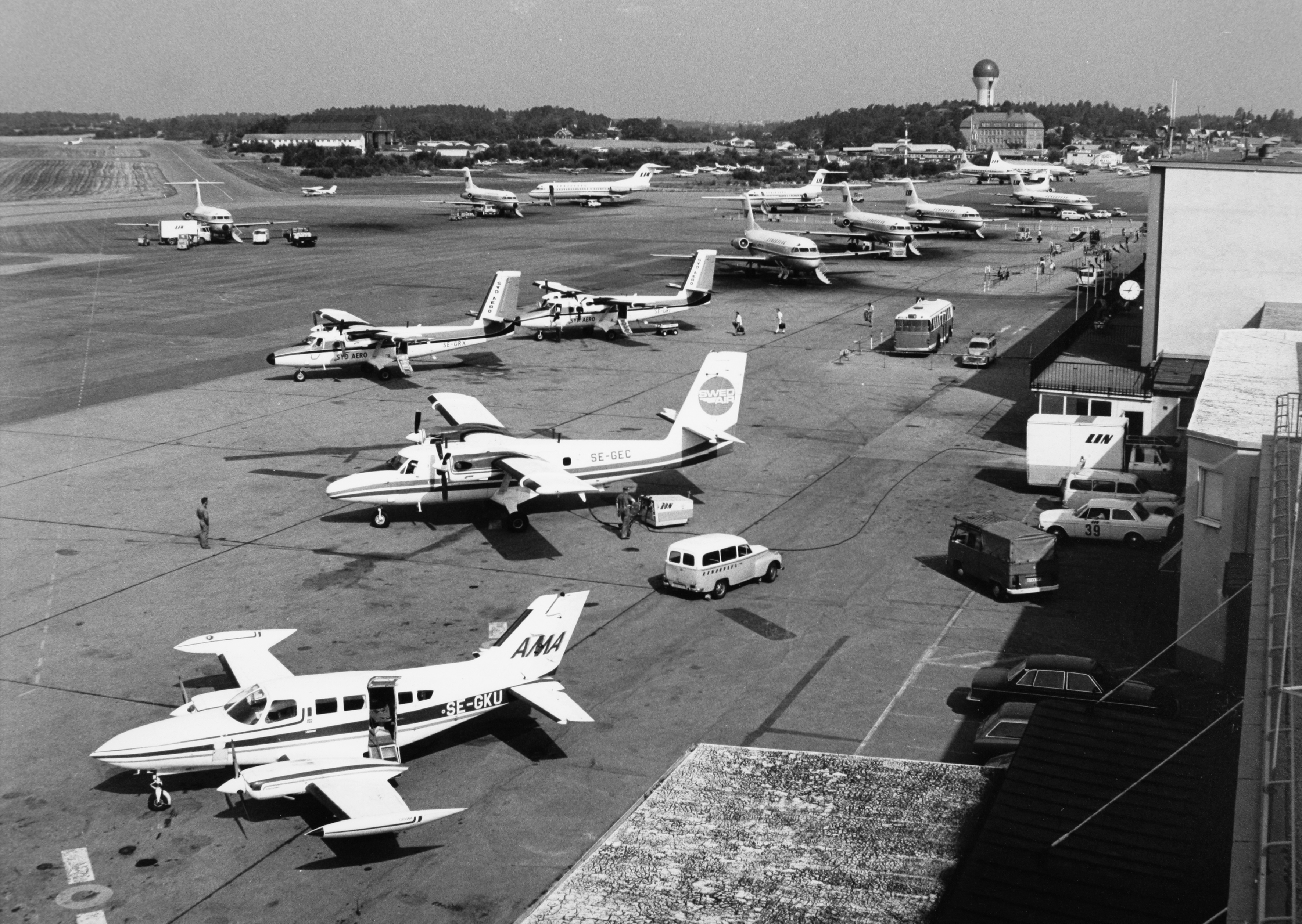 View over runway and aircrafts parked at Bromma International Airport BMA, Stockholm